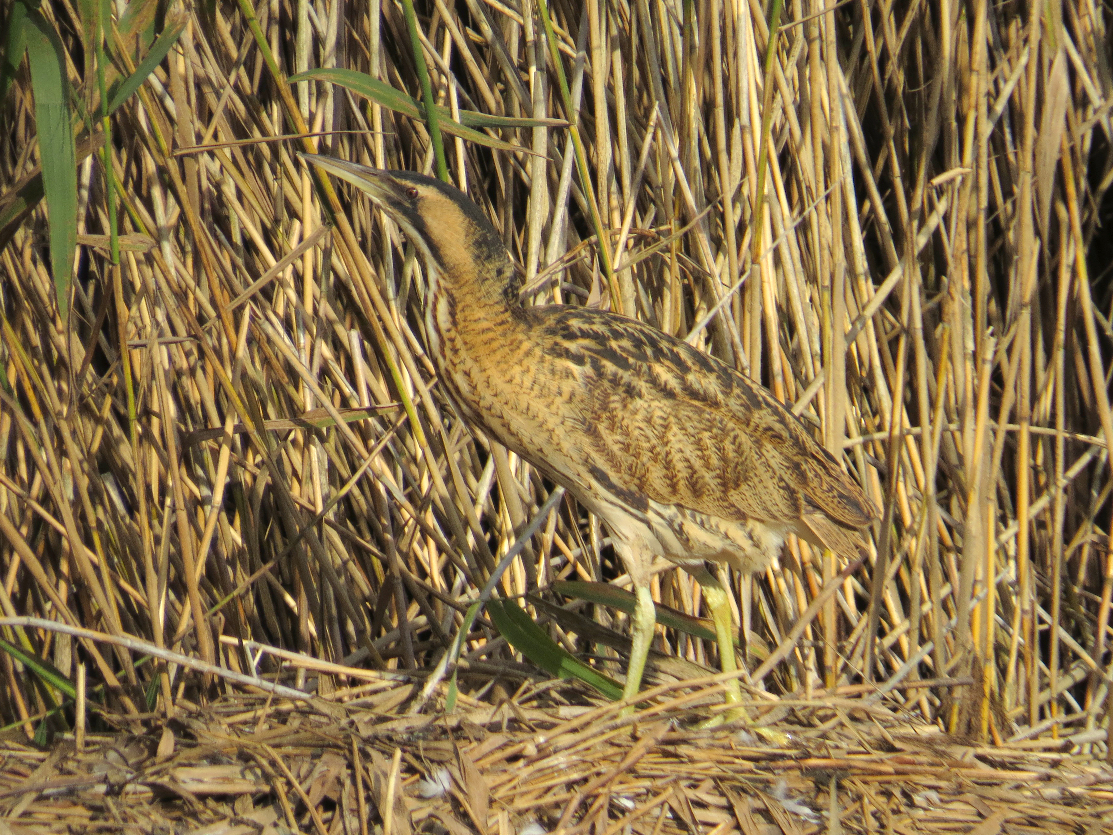 Bittern Botaurus stellaris, Gosforth Park Lake, Northumberland